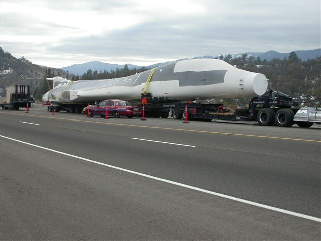 A dismantled B-1 bomber will travel through Oregon on Interstate 5 and Interstate 205 bound for Portland International Airport. The B-1, traveling with its wings removed, is 135 feet long, 29 feet wide and 15 feet tall. The convoy will travel only at night reaching speeds no greater than 45 mph.